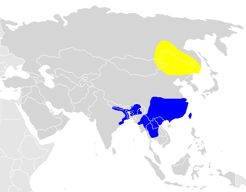 Aythya baeri range according to BirdLife International.